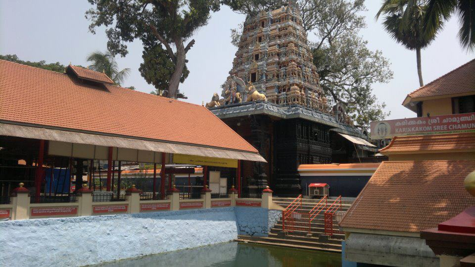 This image shows Karikkakom Sree Chamundi Devi Temple and its surroundings.